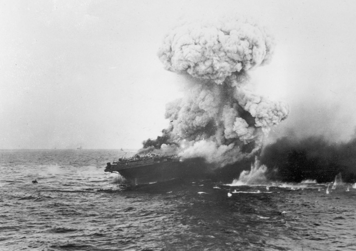 A mushroom cloud rises after a heavy explosion on board the U.S. Navy aircraft carrier USS Lexington (CV-2), 8 May 1942. This is probably the great explosion from the detonation of torpedo warheads stowed in the starboard side of the hangar, aft, that followed an explosion amidships at 1727 hrs. Note USS Yorktown (CV-5) on the horizon in the left center, and destroyer USS Hammann (DD-412) at the extreme left.